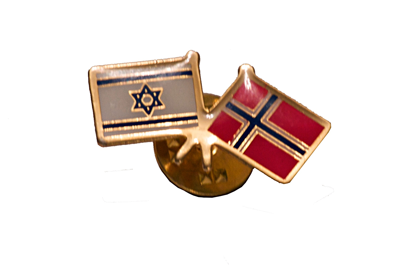 Israel-Norway pin.